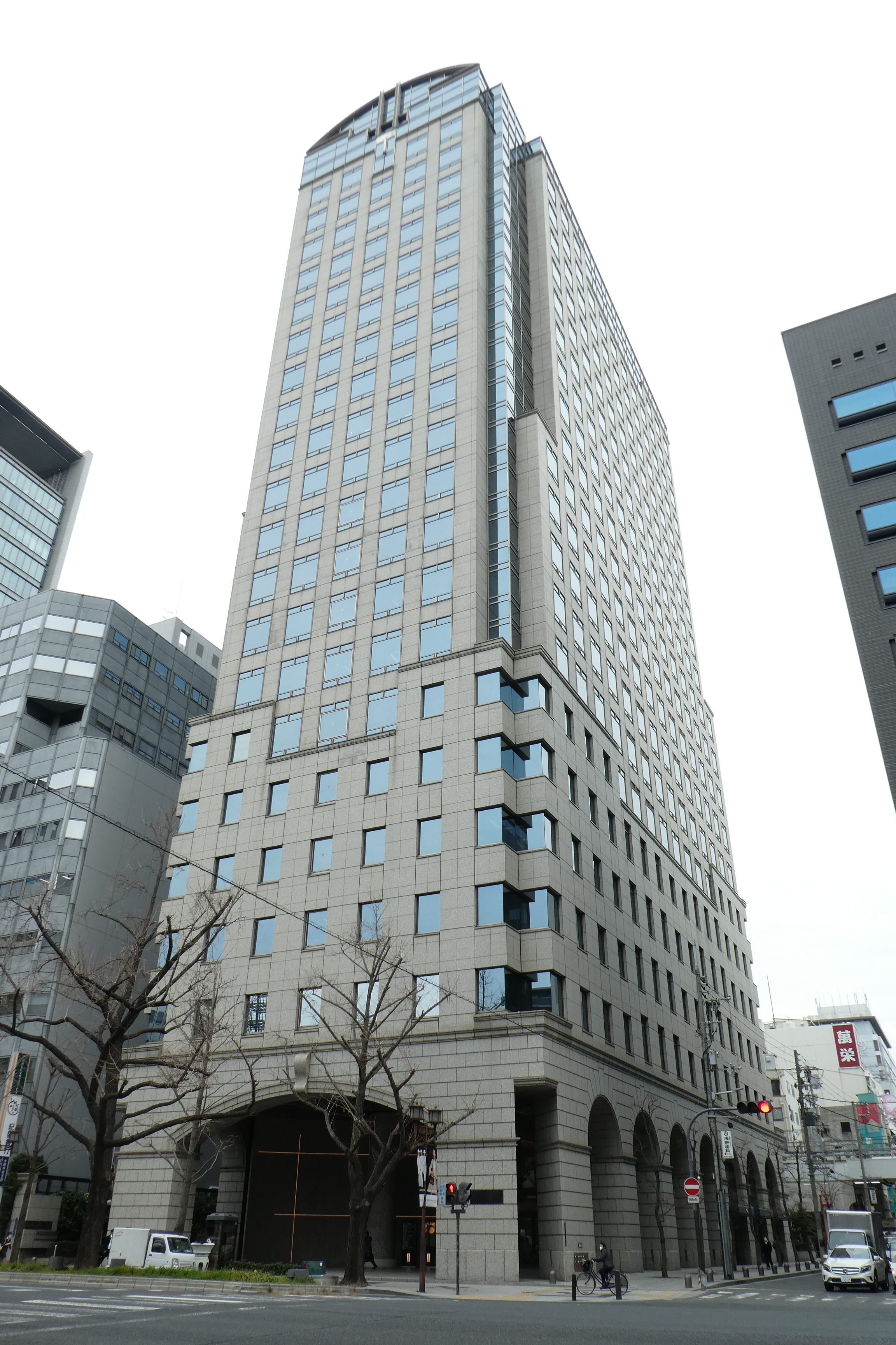 Midosuji Grand Tower in Osaka, Japan. British Consulate-General resides on the 19th floor.